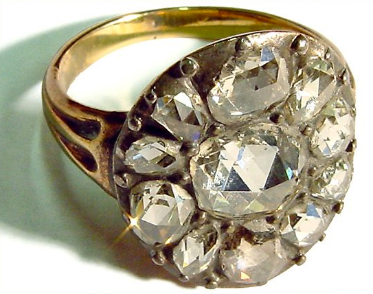 This extraordinary item gives a glimpse into the important events which took place in Derby in December 1745, when Prince Charles Edward Stuart occupied Derby with his rebel Jacobite forces. This gold ring set with large diamonds, once belonged to the Prince. During his stay in Derby, he held his headquarters at Exeter House. The Prince, however, took his meals at the house of Mrs Ward, whose late husband had been Chief Alderman of Derby. Mrs Ward provided her 13 year old son Samuel for the purposes of tasting the Prince’s food. Evidently satisfied Prince Charles gave this diamond ring to Mrs Ward upon his ill-fated departure. The ring stayed with the Ward family until 1947, when the wife of food taster’s great-grandson offered the item to Derby Museum.